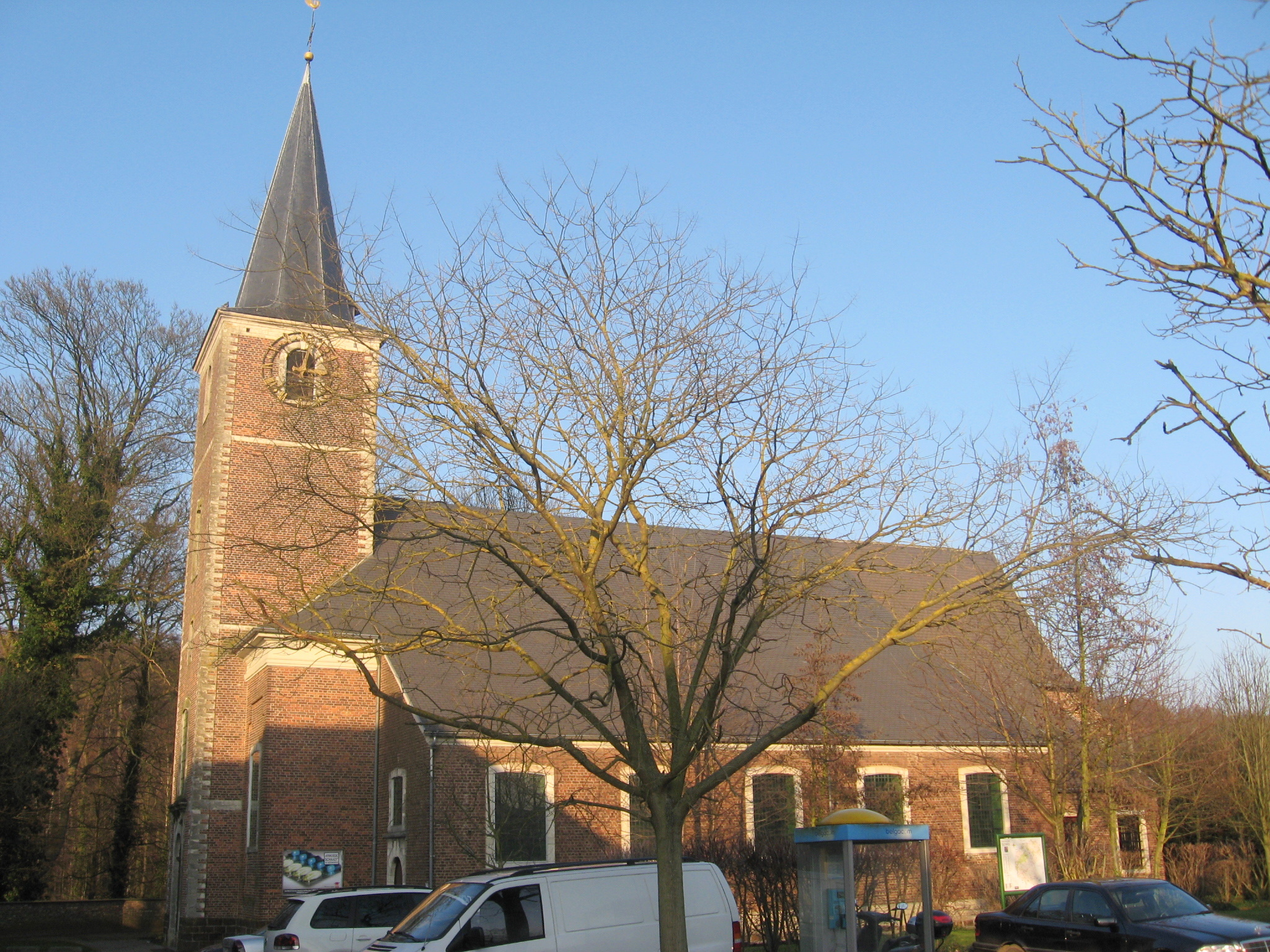 Church of Saint George in Sint-Joris-Winge, Tielt-Winge, Flemish Brabant, Belgium